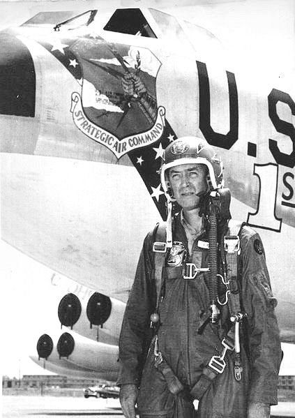 James Stewart in front of a Boeing B52.